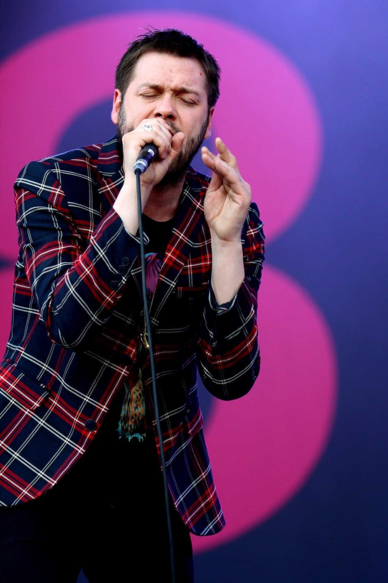 Tom Meighan, singer of Kasabian, on the Centerstage of Rock im Park Festival 2014. Festivalsommer This photo was created with the support of donations to Wikimedia Deutschland in the context of the CPB project "Festival Summer".